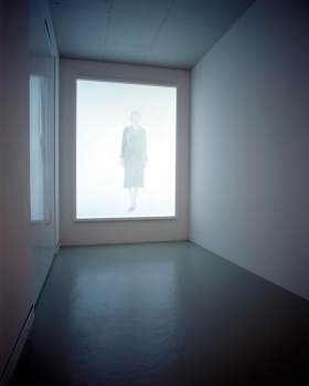 Shot from Traverse